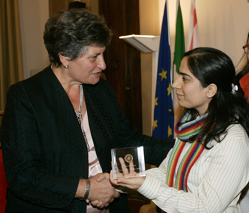 Regional Councilor Bruna Giovannini, on behalf of the Regional Council of Tuscany gives Malalai Joya the prestigious Gold Medal.